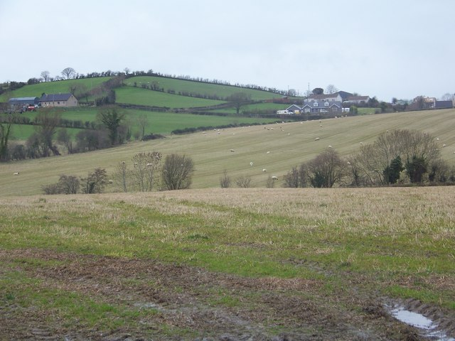 The townland of Ballynafoy Taken from the Cavehill Road